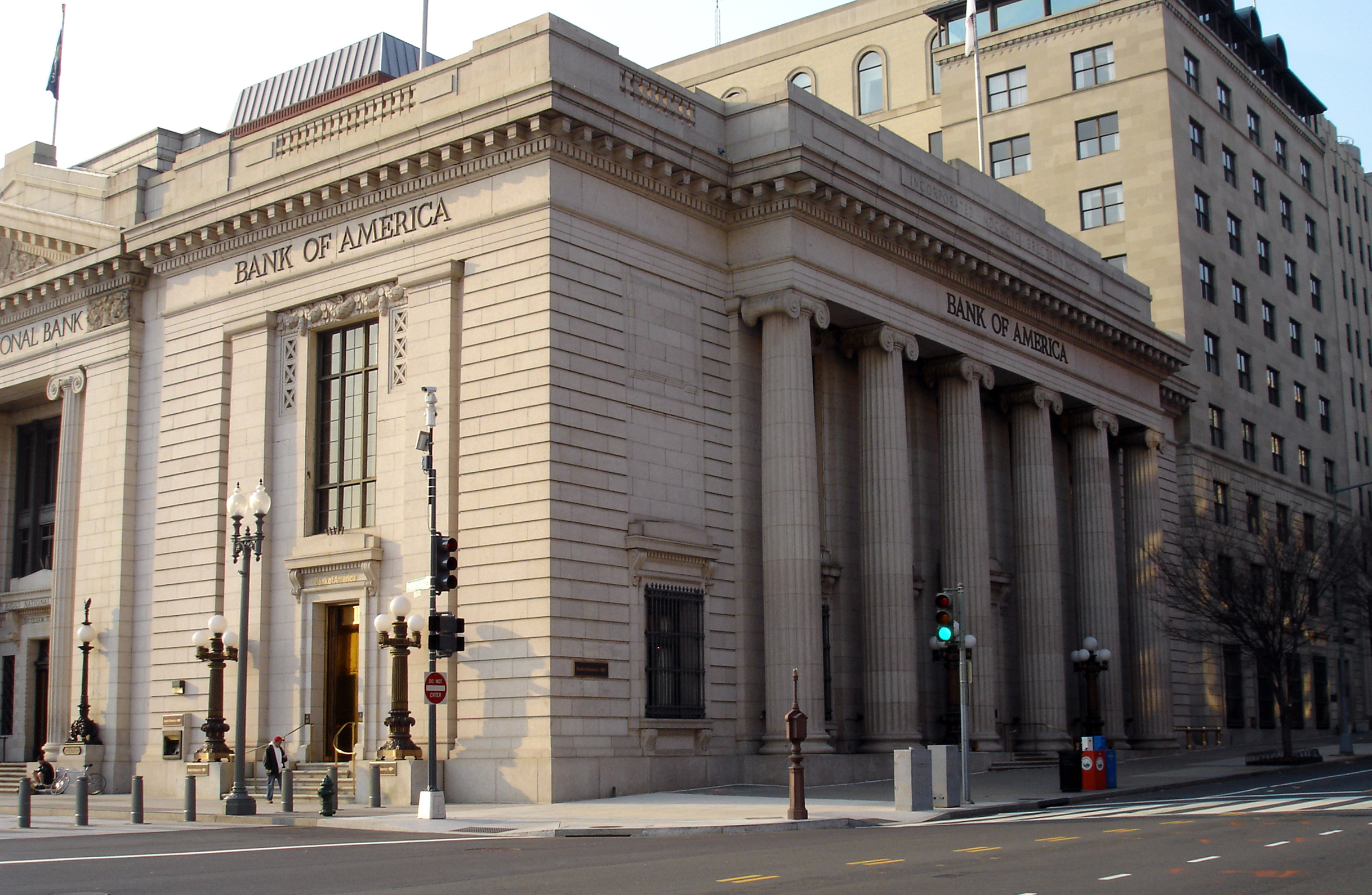 Bank of America Banking Center across the street from the White House at 1501 Pennsylvania Ave NW, Washington, DC.